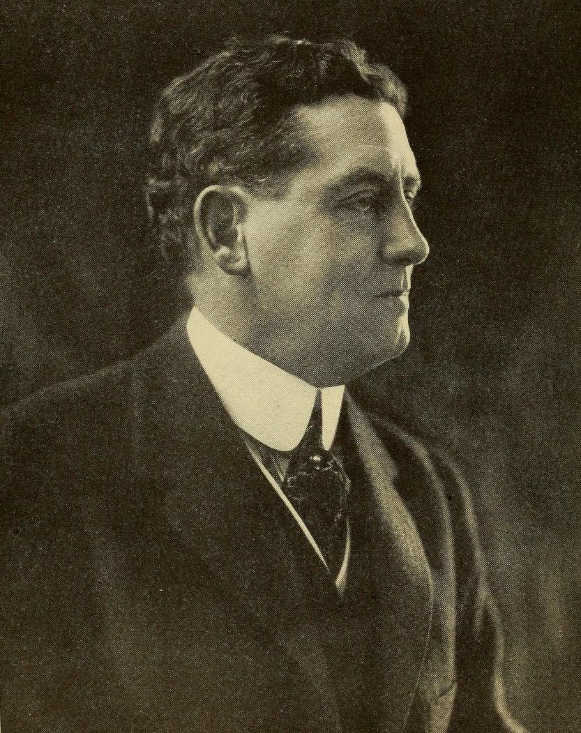 Portrait of John Timothy Stone